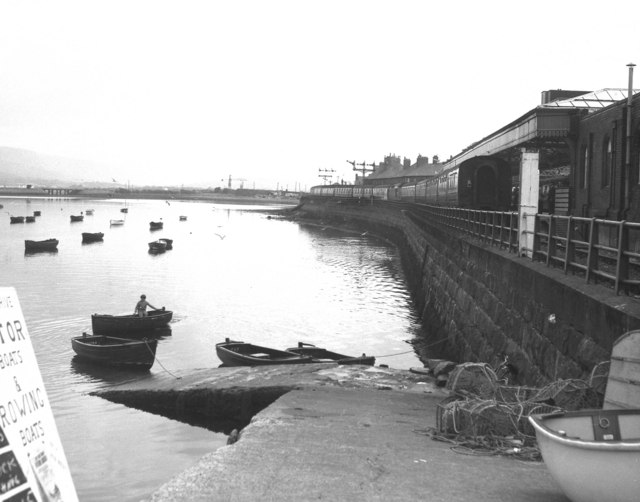 Fort William station and the loch wall - 1973 Sometimes there are outbreaks of communal idiocy which can occur anywhere in Britain. In one such instance, this station was demolished and the railway trackbed used for commercial development and to build a new road. The railway was cut back for over half a mile and a new 'station' built (in a different grid square and a far less convenient location for the centre of Fort William). So the scene shown here will never be photographed again.